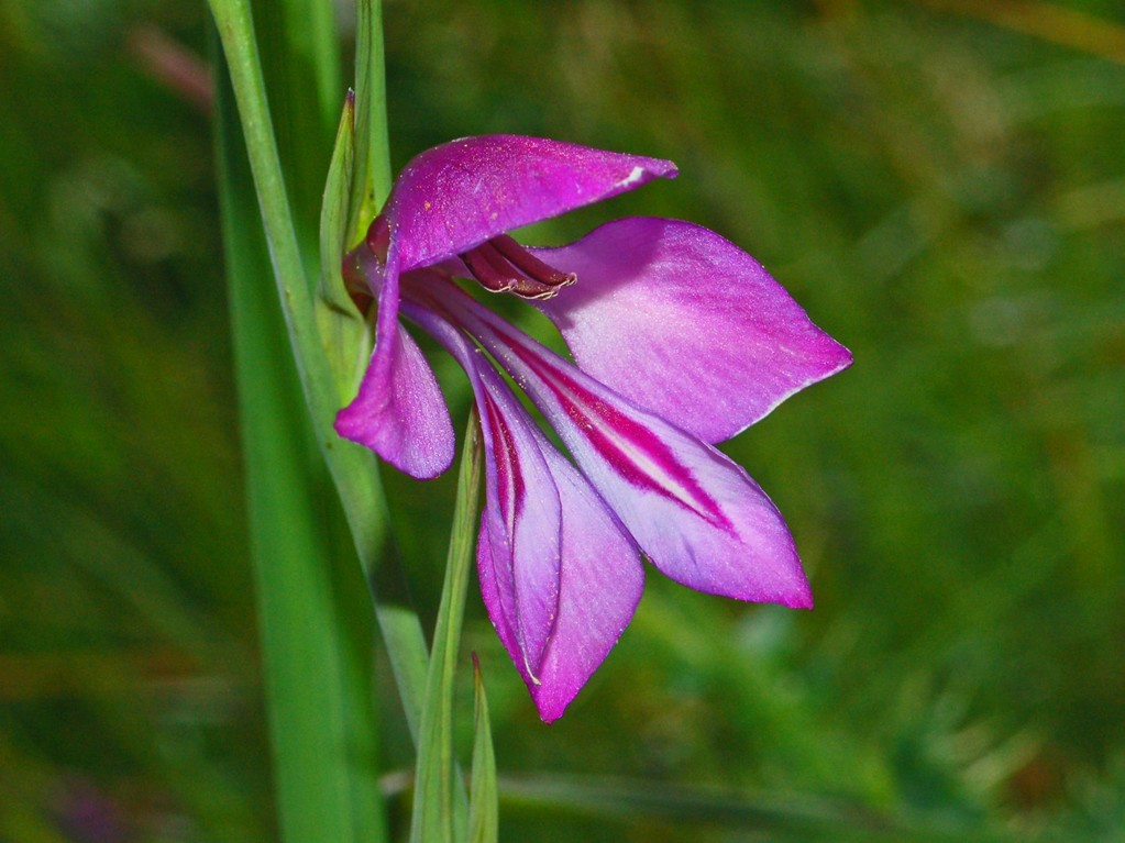 Gladiolus palustris - Piani di Praglia, Genova, Italy